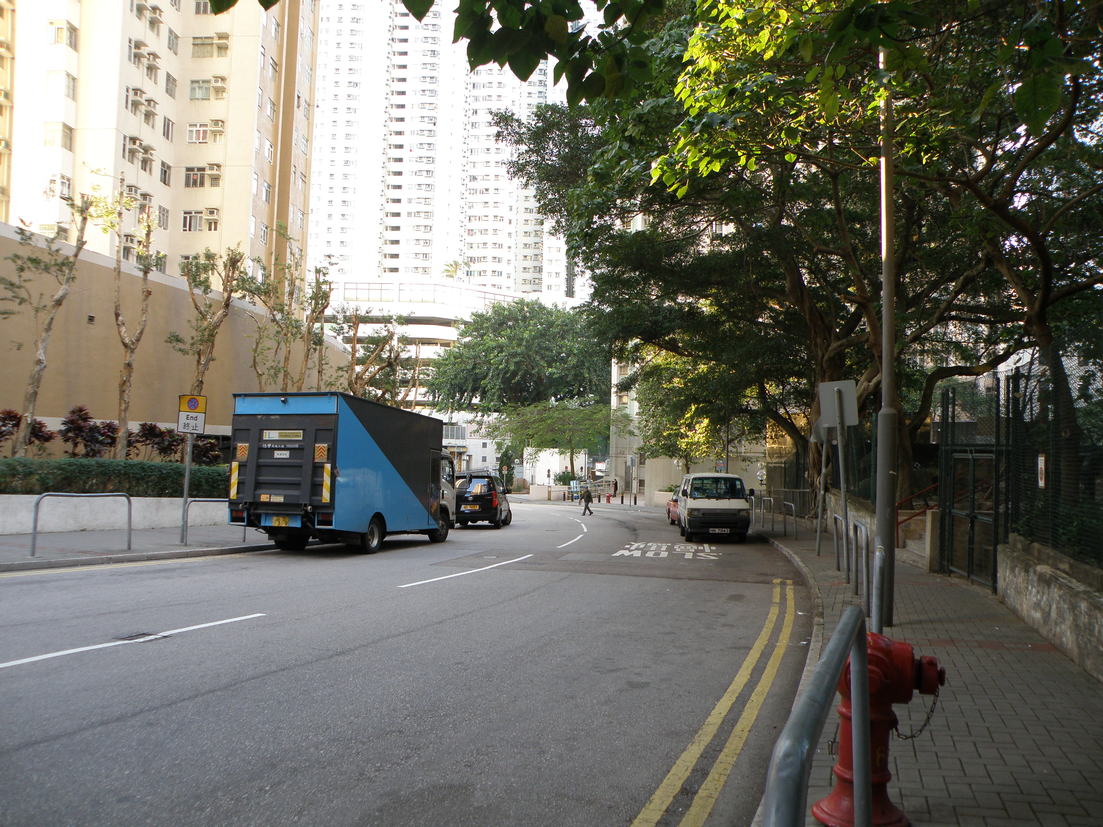 King Tung Street in Hammer Hill, Hong Kong.